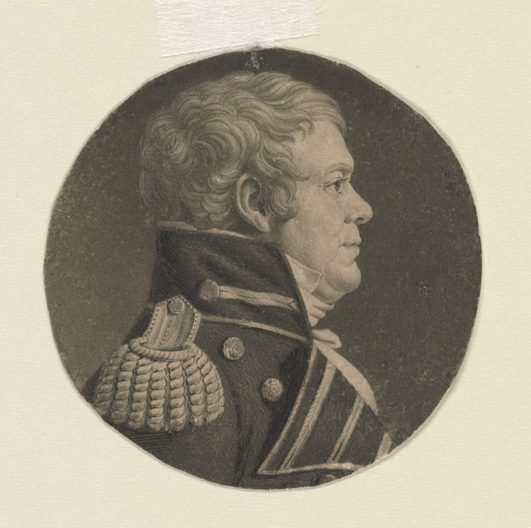 Title: John Cassin, head-and-shoulders portrait, right profile Abstract/medium: 1 print : engraving.